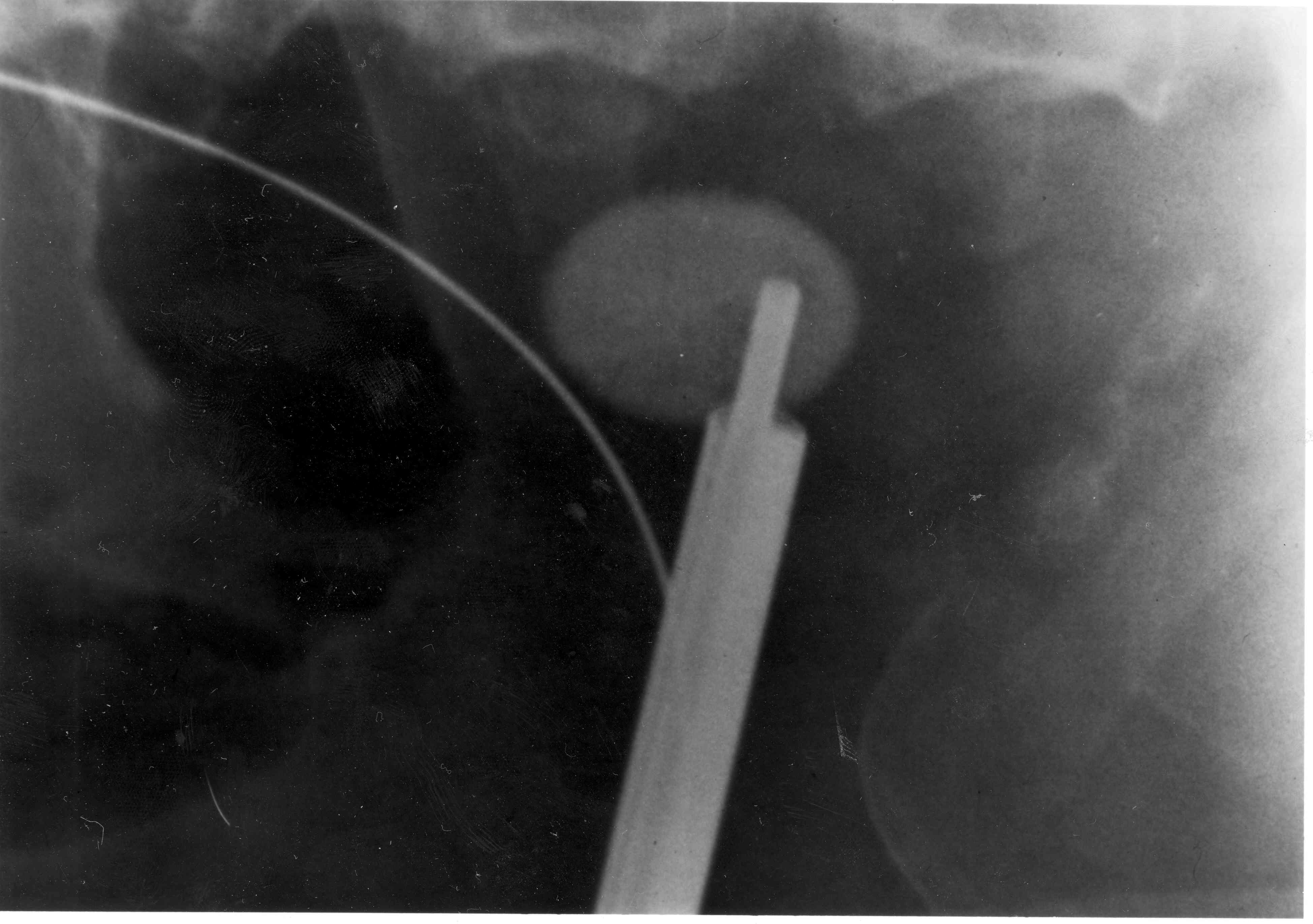 Title: Ultrasonic instrument and kidney stone Image ID: 4172 Photographer: Unknown Restrictions: Public Domain Abstract: Photograph-One 5x7 photograph, with a slip of paper taped to the back. The slip of paper describes the photograph. The caption reads: This x-ray shows the ultrasonic instrument in direct contact with a large stone in the kidney. [1]